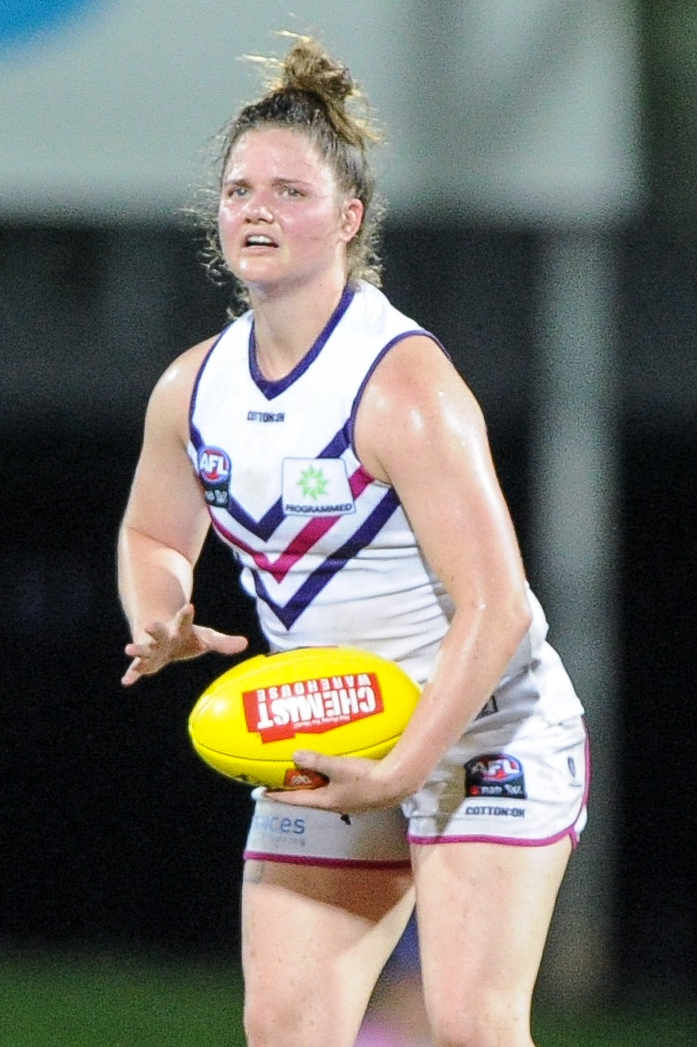 Lara Filocamo in the AFL Women's preseason match between the Adelaide Football Club and Fremantle Football Club on 20 January 2018 at TIO Stadium.